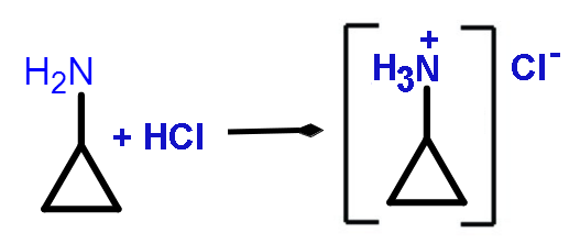 Cyclopropylamine reaction